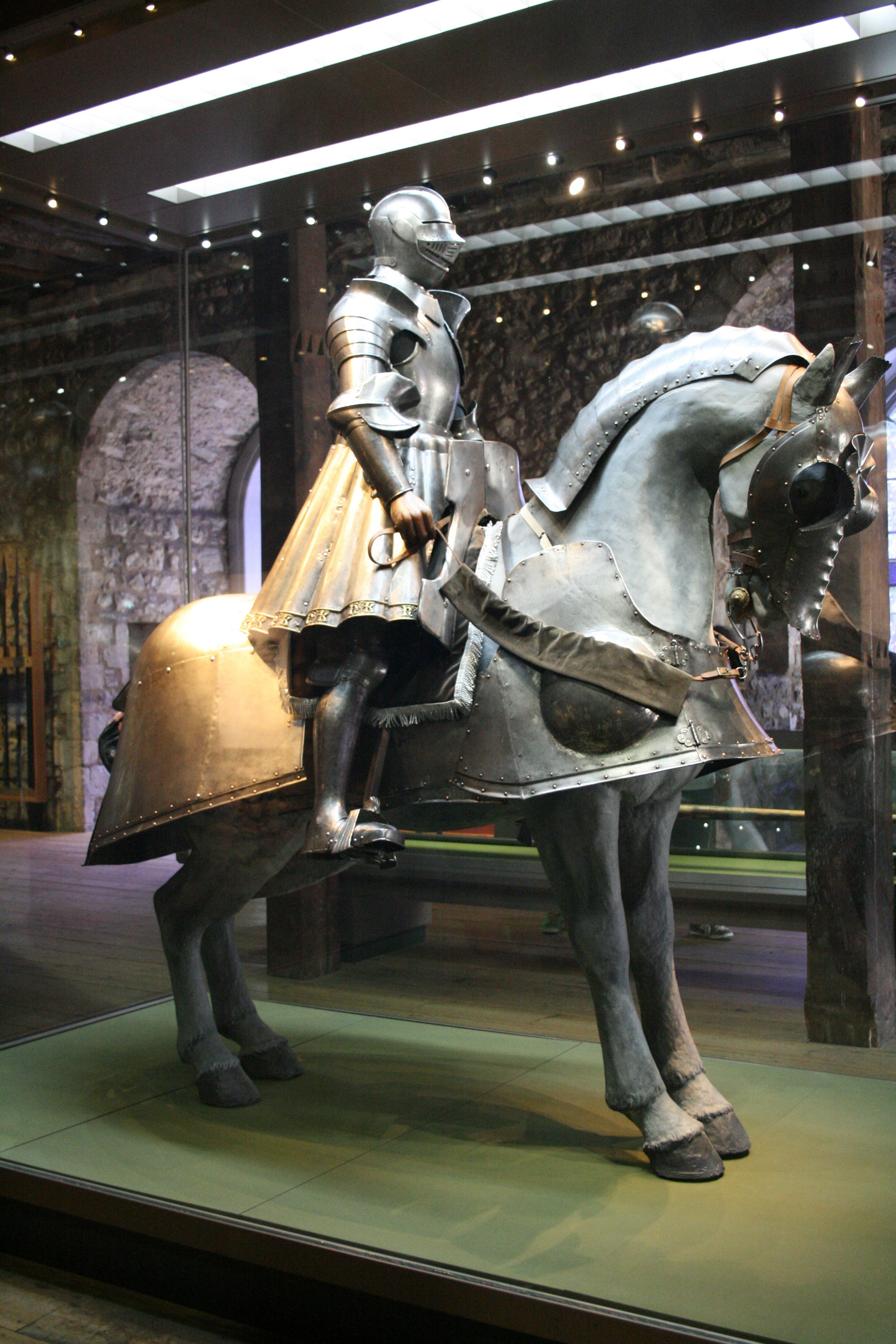 Tower of london, White Tower, Royal Armouries, first floor